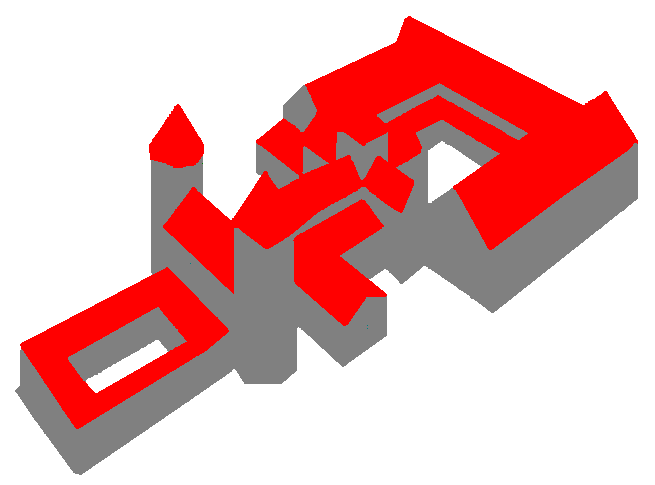 Description: former St. Michael's Monastery on the Heiligenberg Mountain near Heidelberg, Germany Source: own work